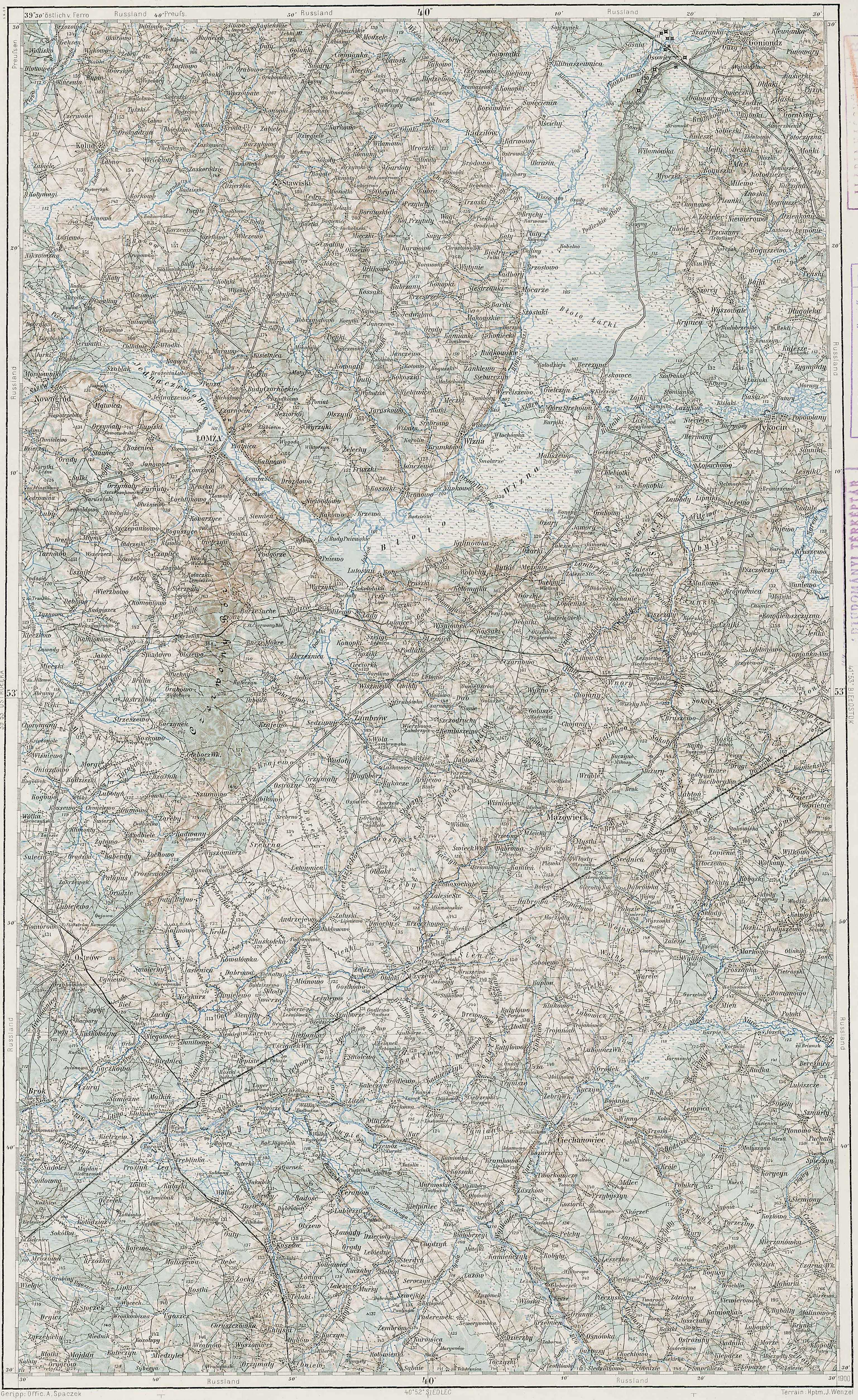 3rd Military Mapping Survey of Austria-Hungary - Lomza